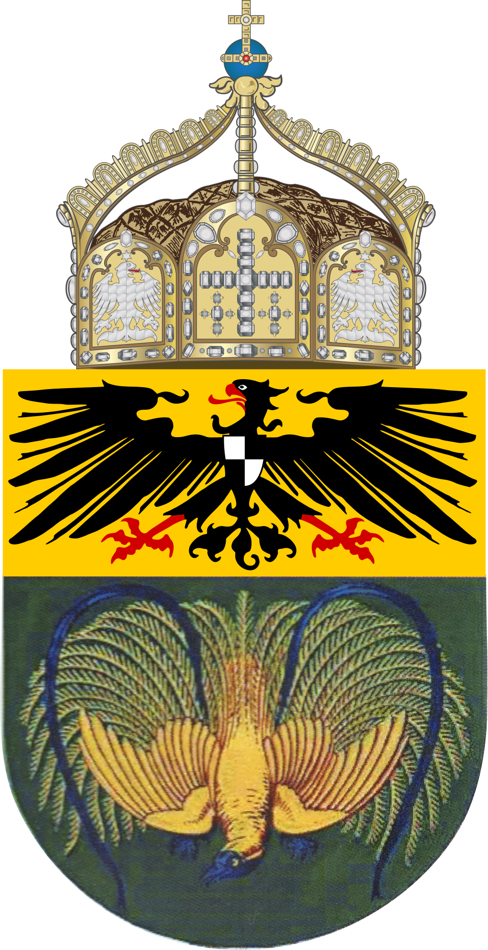 Proposed Coat of Arms for German New Guinea, 1914